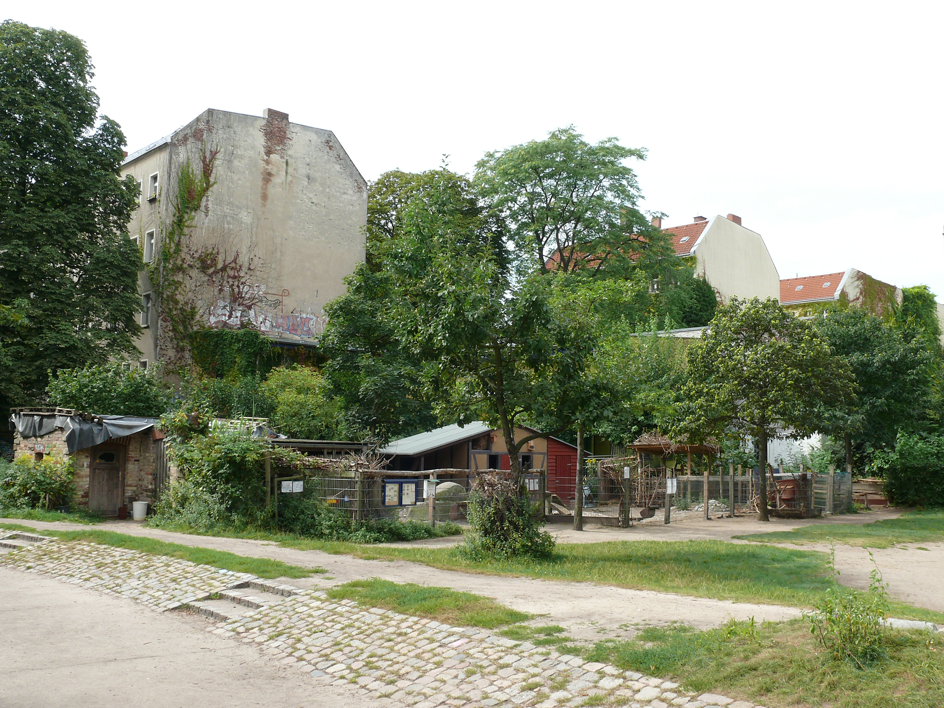 Berlin-Charlottenburg Danckelmannstraße Goatfarm (Ziegenhof)